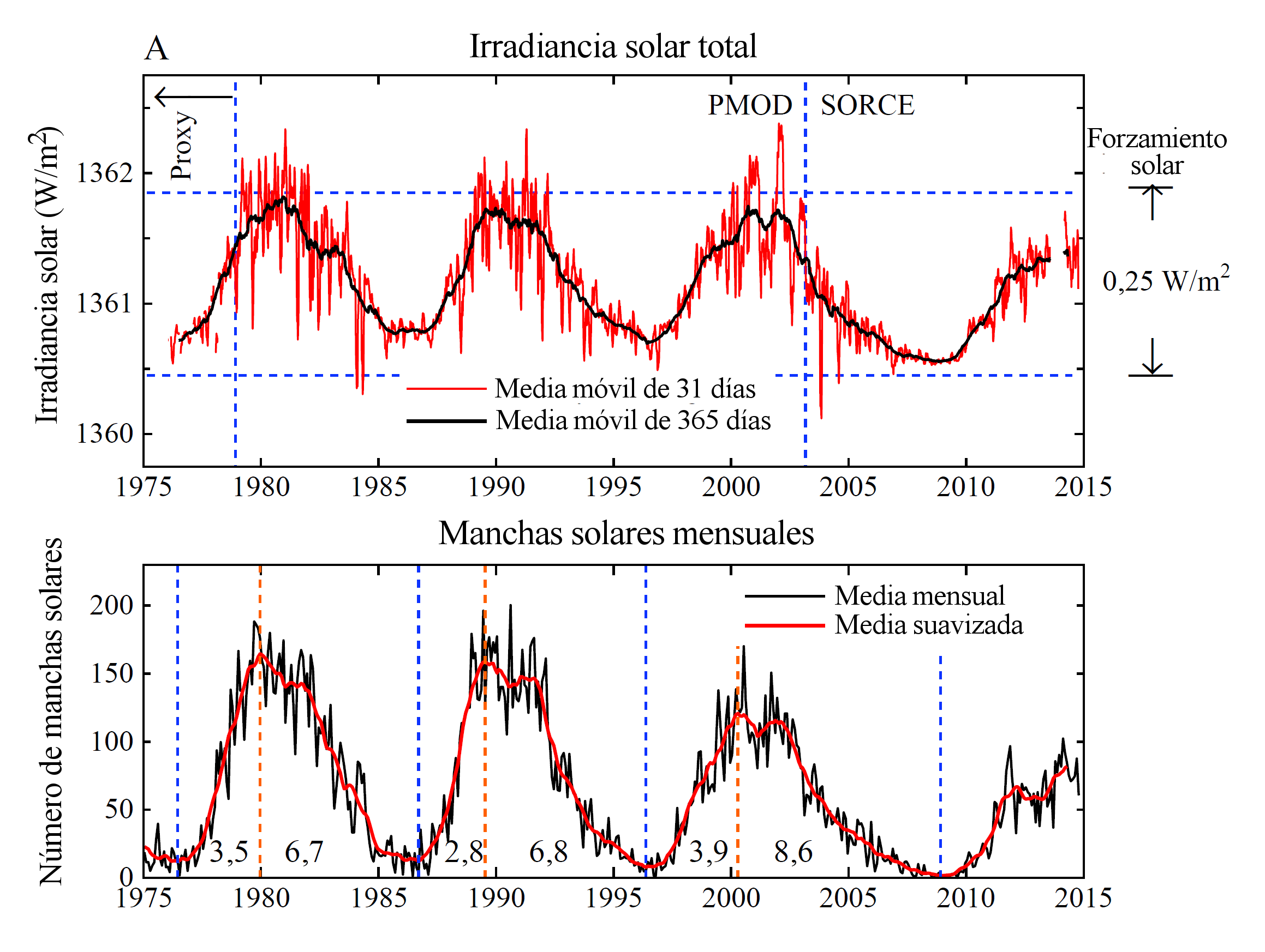 Version in Spanish. two graphs show changes in total solar irradiance (TSI, labelled "A") and monthly sunspot numbers ("B") between approximately 1975 to 2013.